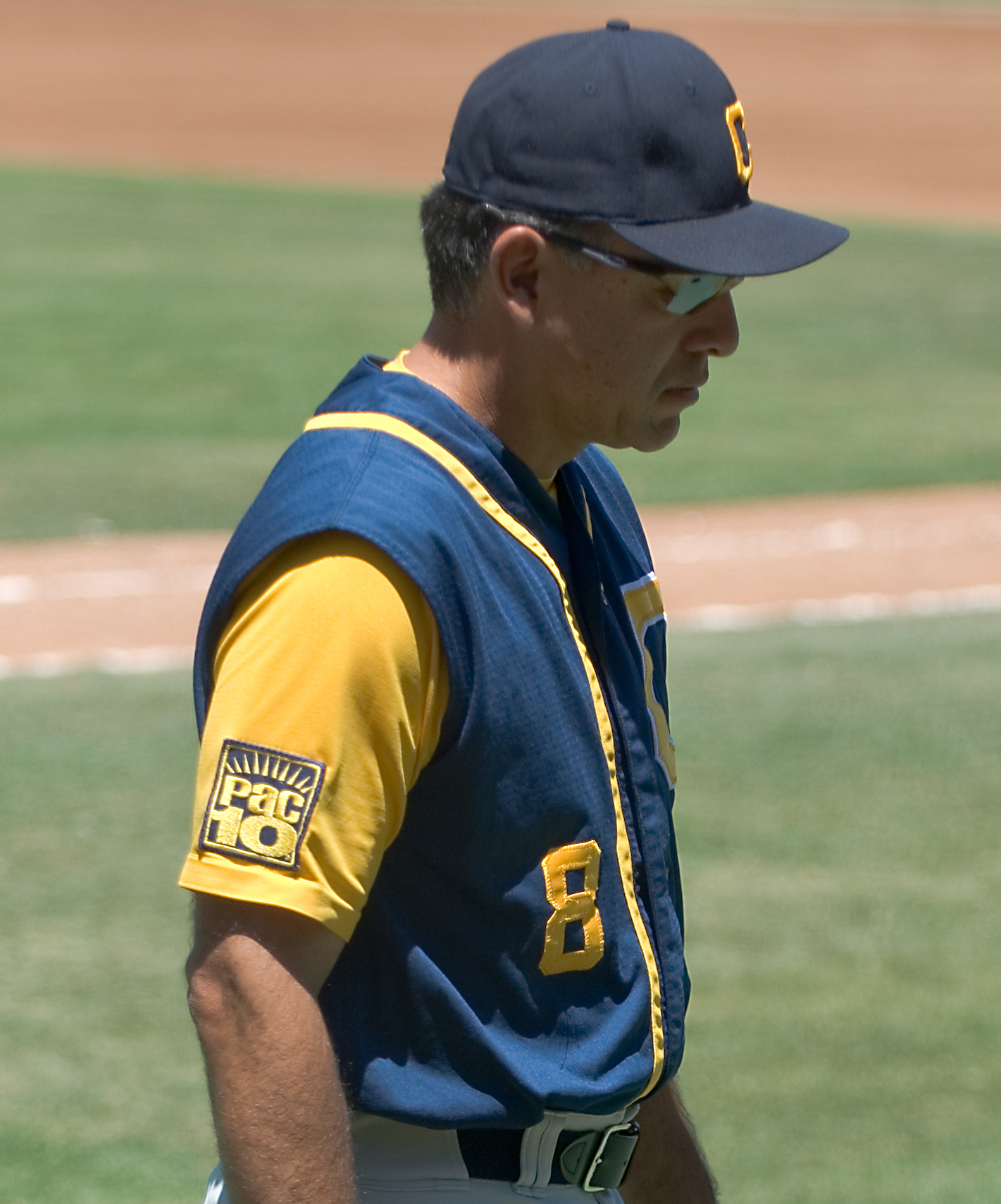 David Esquer, head coach of the California Golden Bears, during a 2007 game